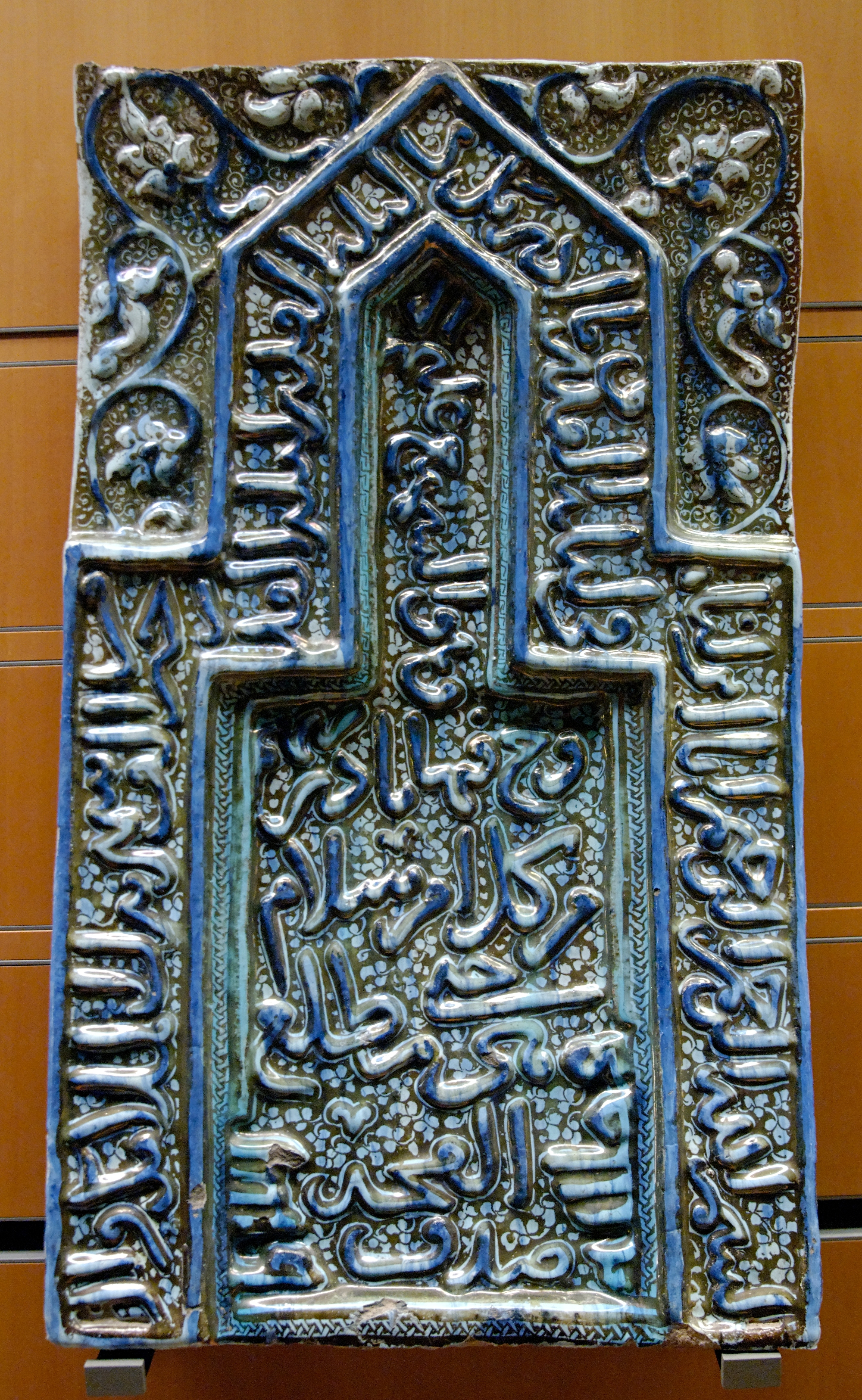 Mihrab. Earthenware with moulded and painted decoration under transparent glaze and lustre glaze, early 14th century. From Kashan, Iran.